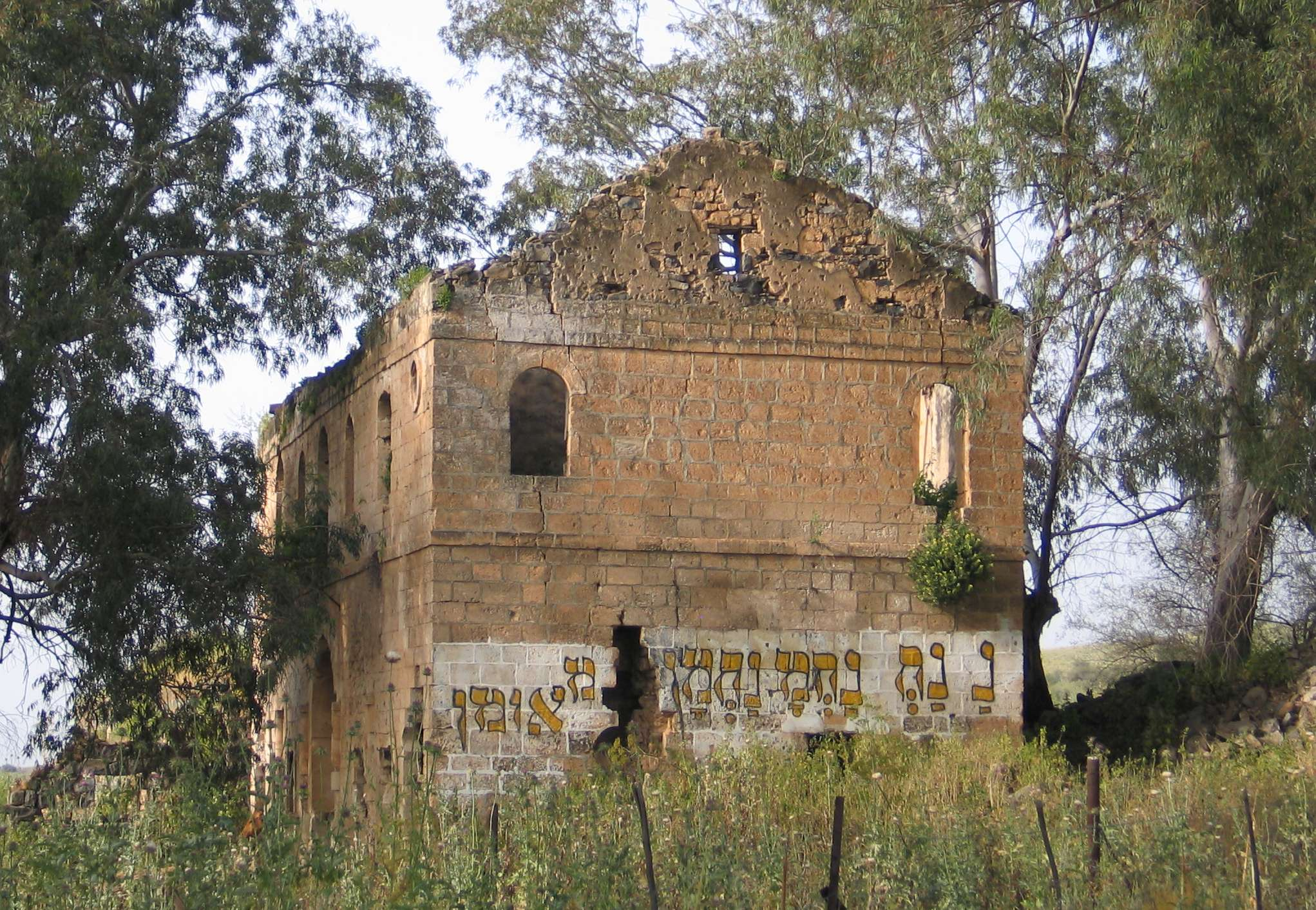 "Lower custom house", east of Bnot Yaakov bridge.